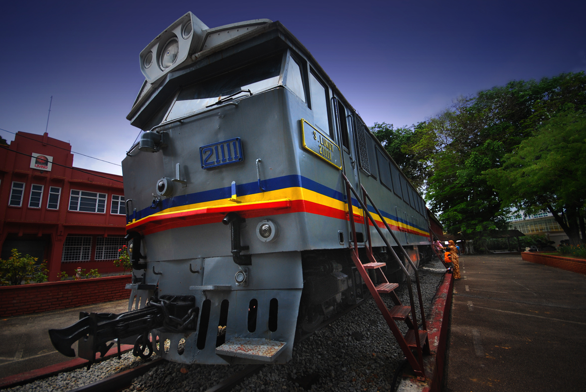 An old train exhibit in Malacca